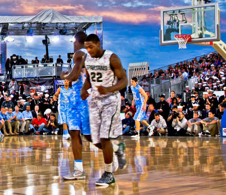 Branden Dawson playing for the Michigan State Spartans.